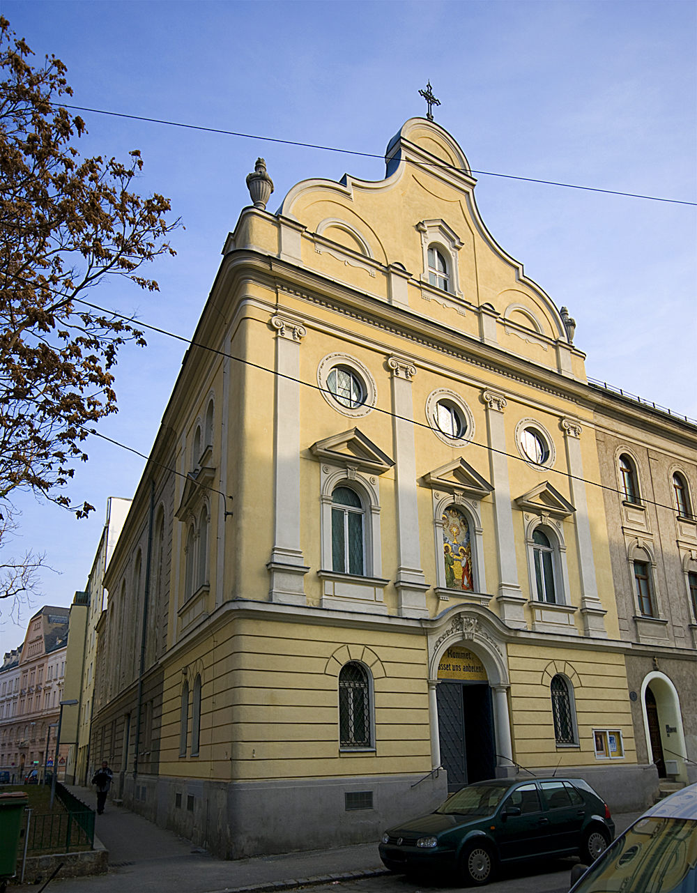 Church of the convent of Poor Clares (Vienna)